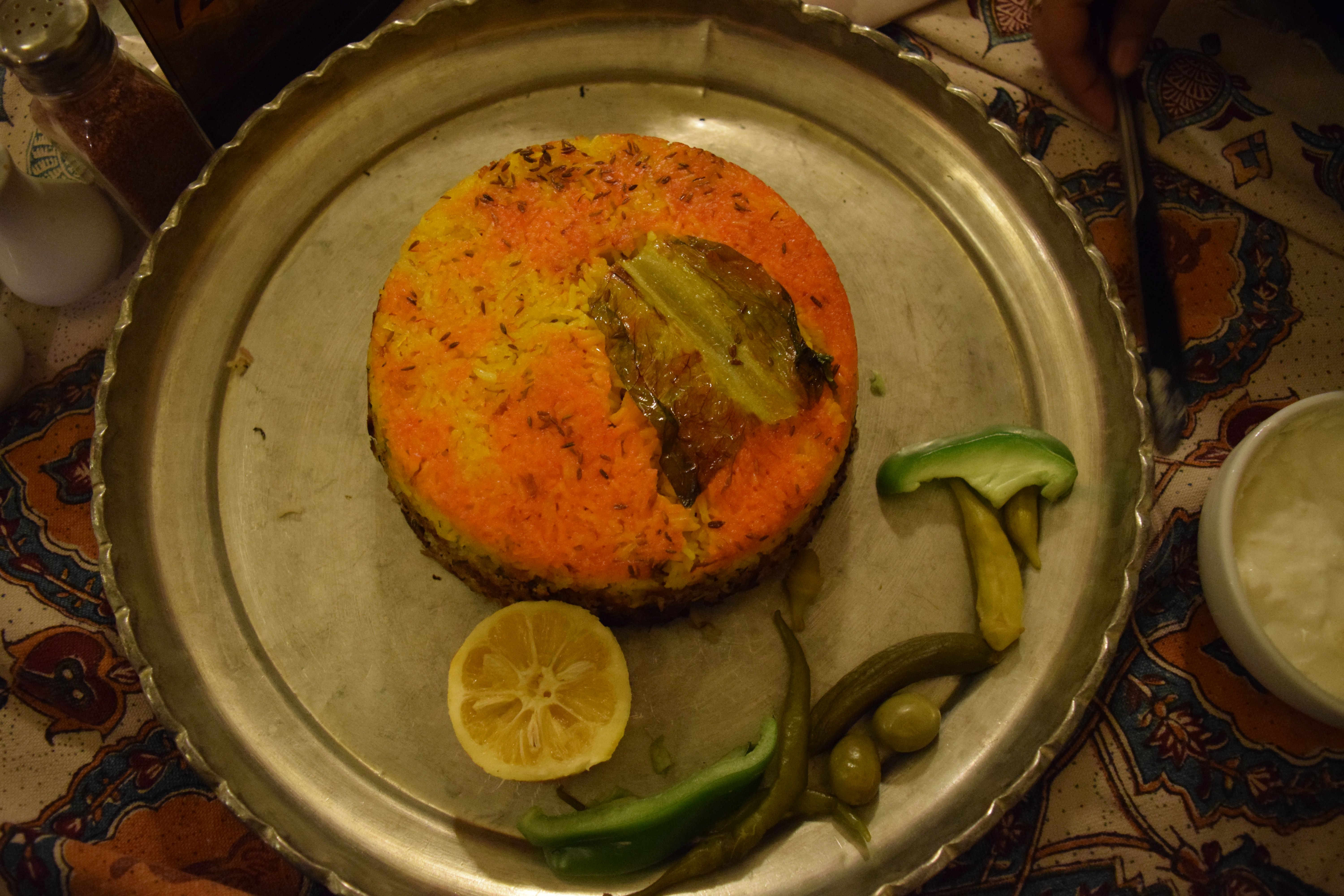 Kalam Polow Shirazi